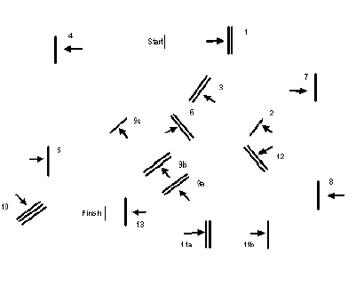 Self-Made image Author BLW